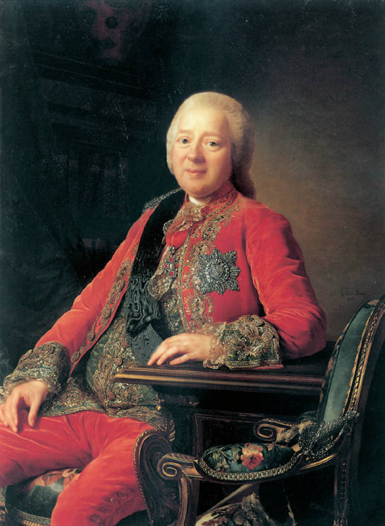 Nikita Ivanovich Panin (1718–1783), Russian diplomat and statesman